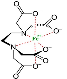 Ethylenediaminetetraacetic acid is able to form stable complexes